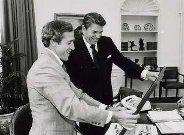 Ronald Reagan in Oval Office in 1982 with Robert DeProspero looking at a framed print of Rancho del Cielo